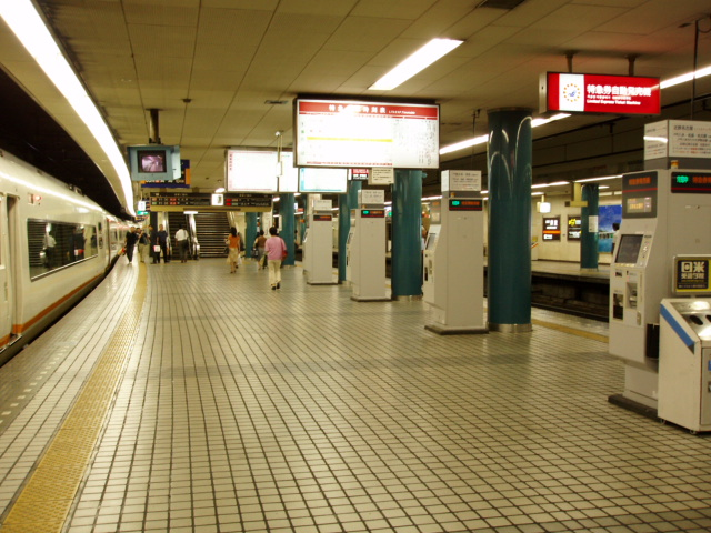 Kinki Nippon Railway Namba Station Platform 近畿日本鉄道 近鉄難波駅駅ホーム